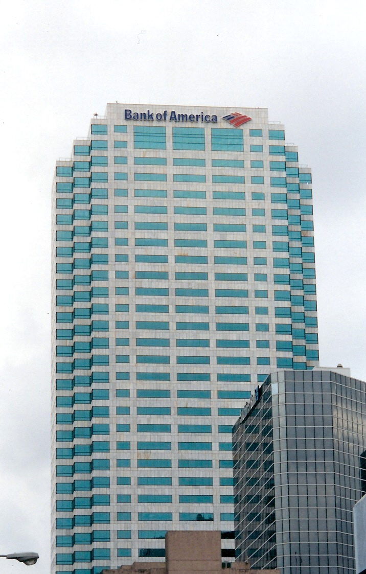 Bank of America Plaza - Tampa, FL